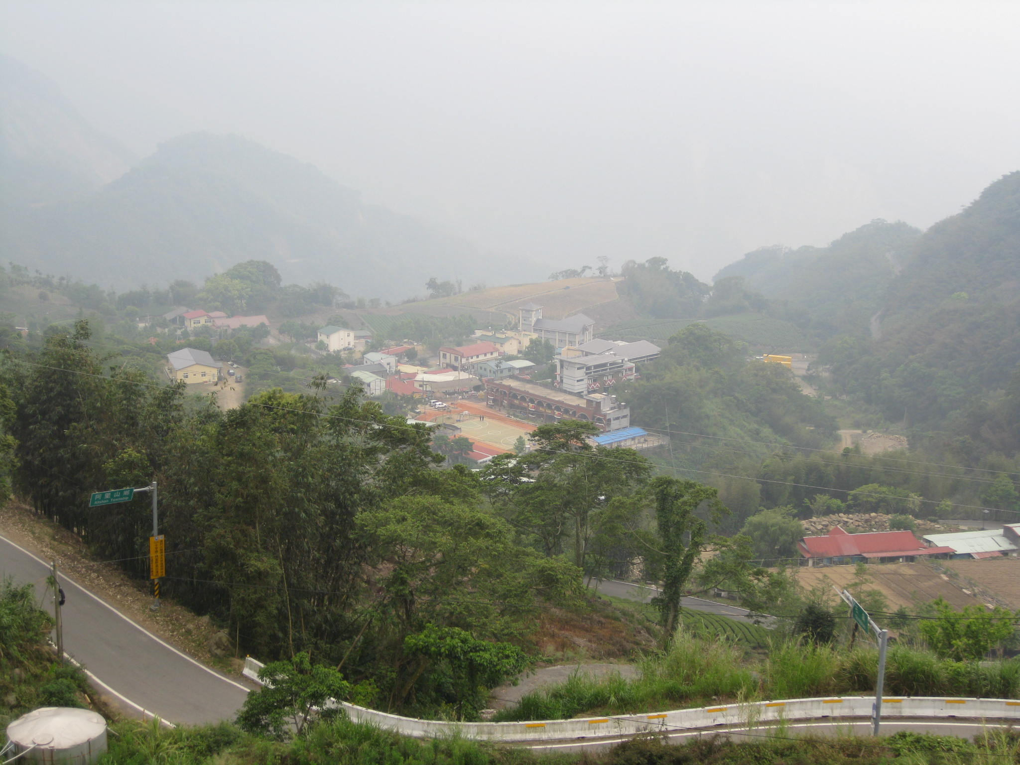 Lalauya is the tribe of Alishan Tsou in Taiwan,it means maple forest in the Tsou language,located on the eastern side of Chiayi County.The school is "Alishan Elementary and Junior High School" in the photo center,it precursor is called "Leye Elementary School".A panoramic photography taken from Shihjhuo.